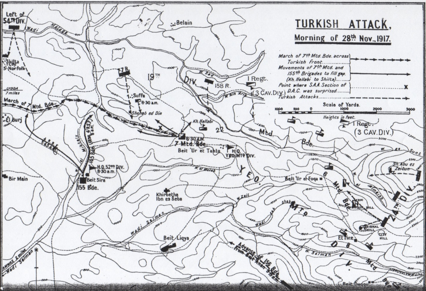 Battle for Jerusalem 1917. Sketch map showing Ottoman counterattack, Morning of 28th November 1917.